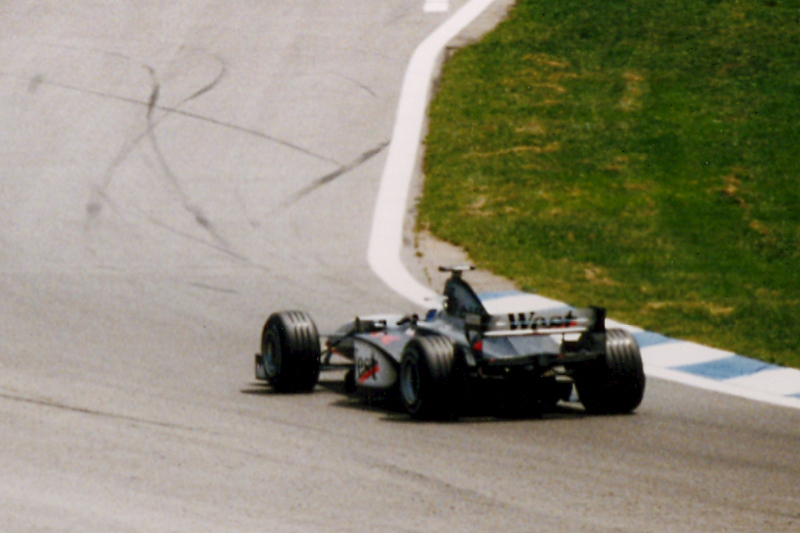 Pole-setter and winner of the race, leading every lap.